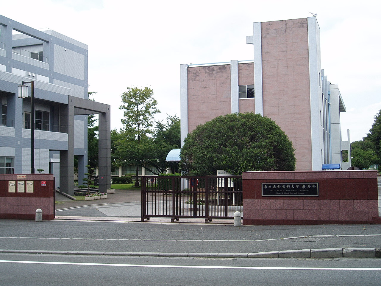 The main gate of Kounodai Campus, Tokyo Medical and Dental University.